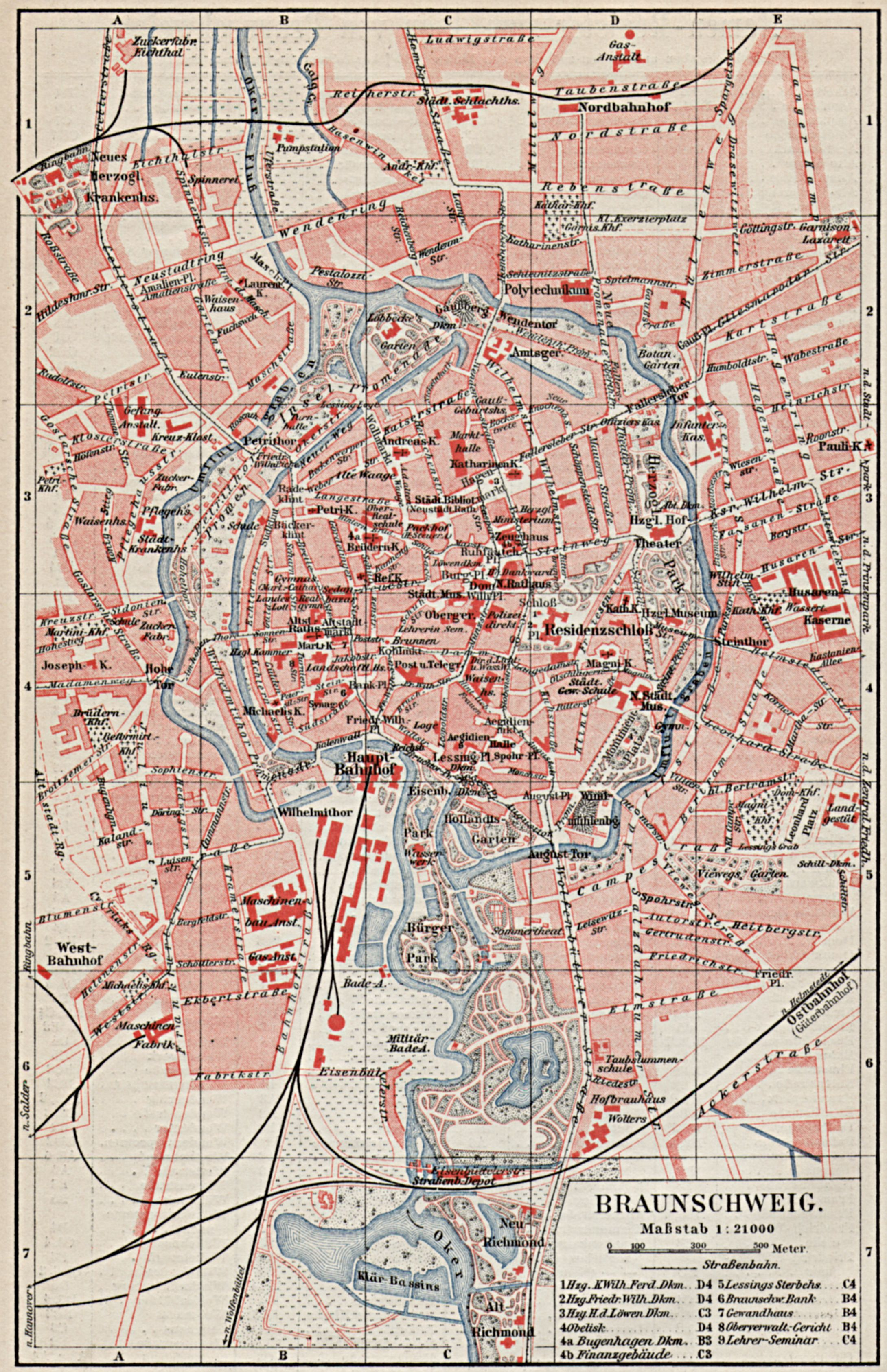 Citymap Brunswick 1905